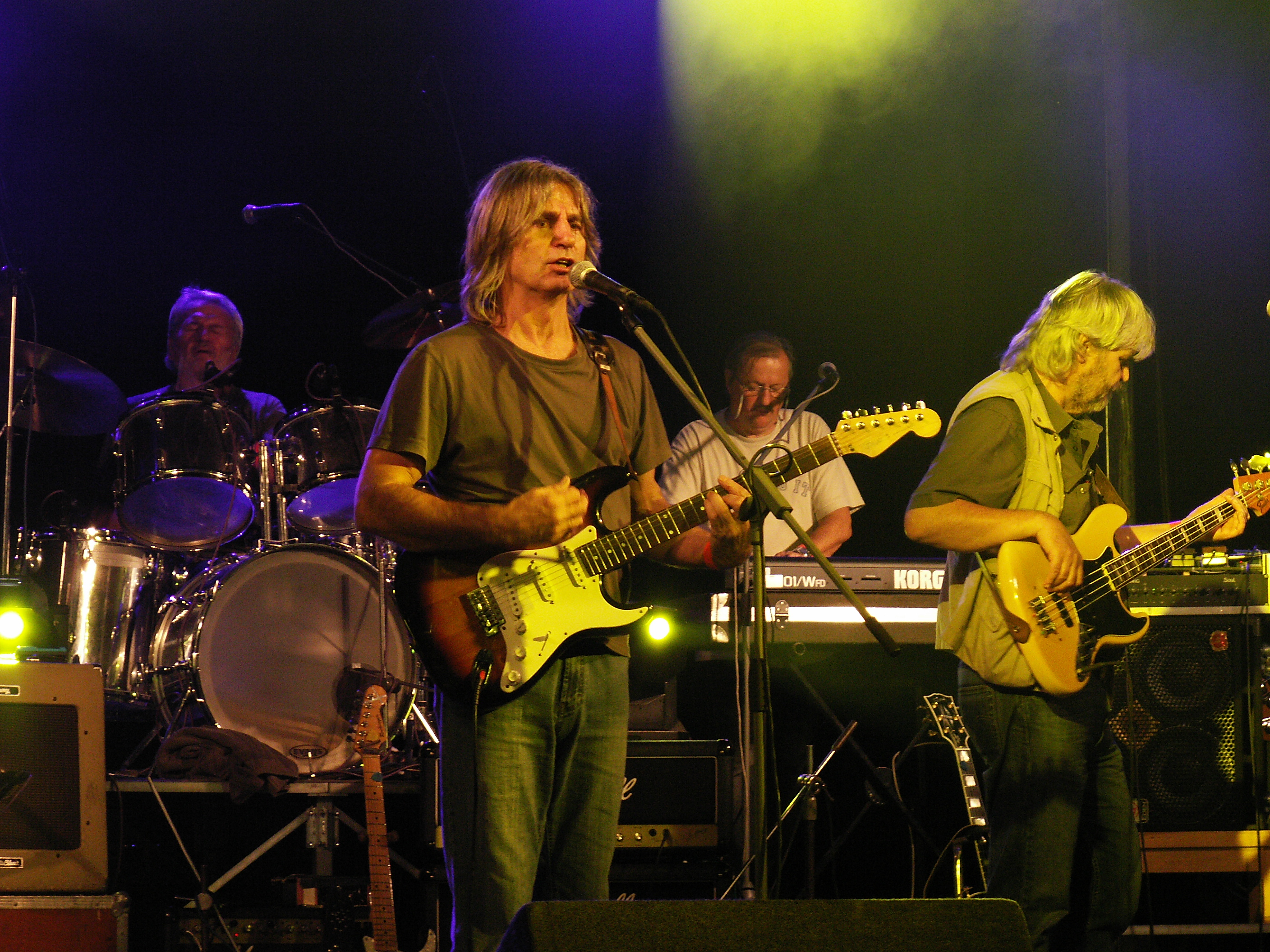 Pavel Vane - guitarsit and singer Progres 2 Česky: Pavel Váně - kytarista a zpěvák brněnské skupiny Progres 2